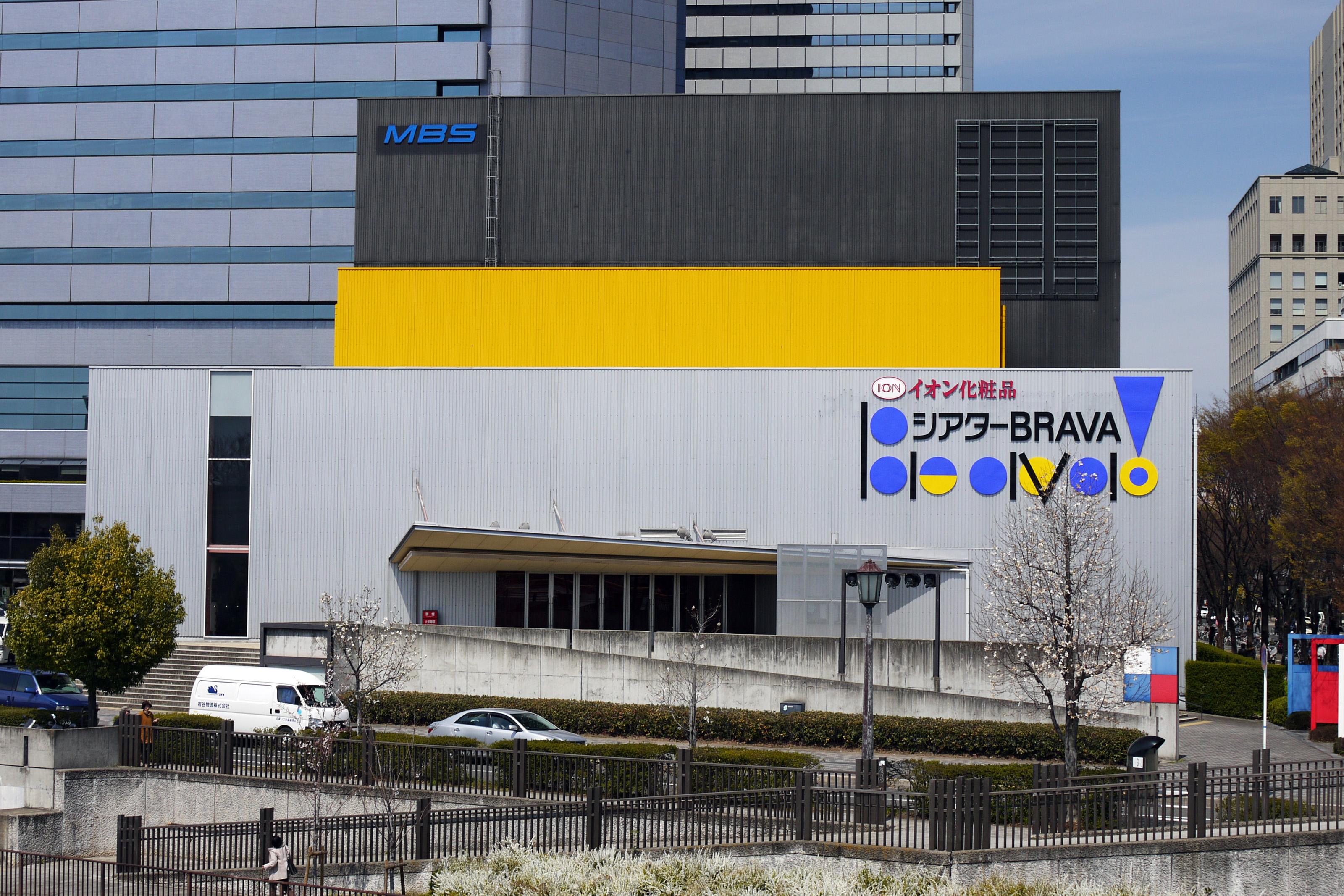 Theater BRAVA! in Osaka, Osaka prefecture, Japan